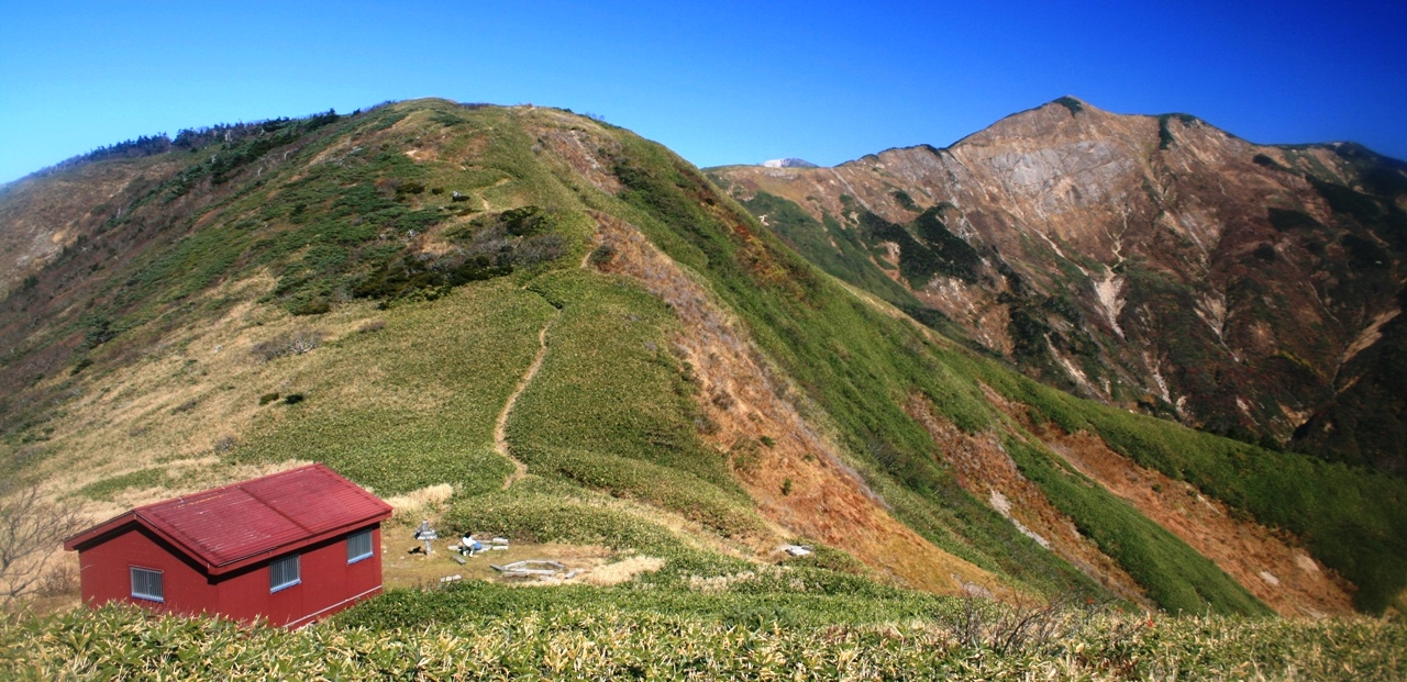 Sannomine Hut aud Mount Bessan in Ryōhaku Mountains, Japan.